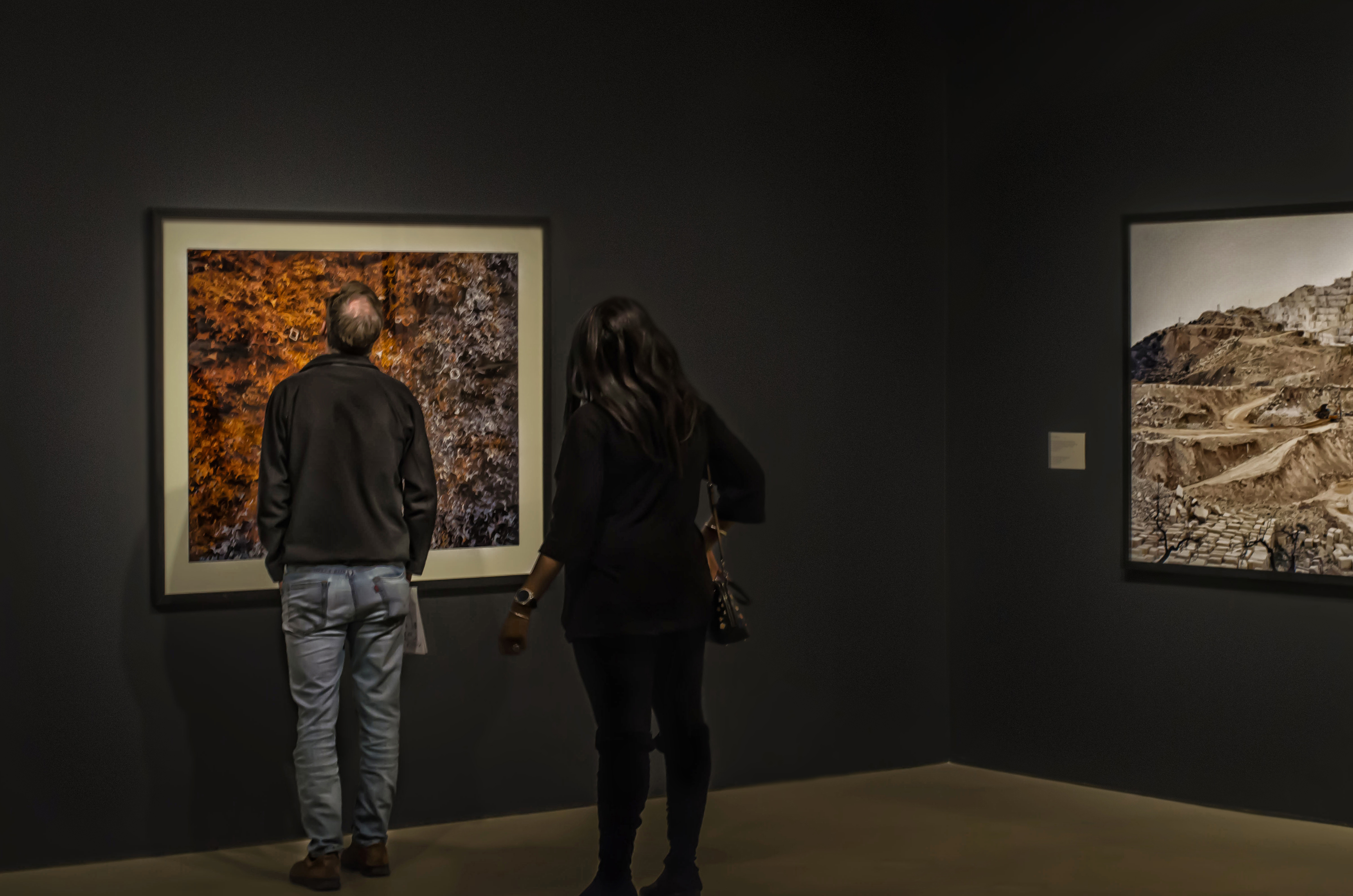 One of my favorite photographers is Edward Burtynsky . His large format images are spellbinding, I find and indeed do invite 'a closer look'. He recently gifted 70 or so images to the Art Gallery of Hamilton, of which 28 where on display today for a water-themed exhibit.